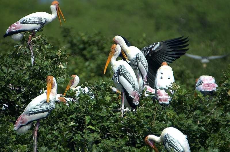 Colony of Painted Stork